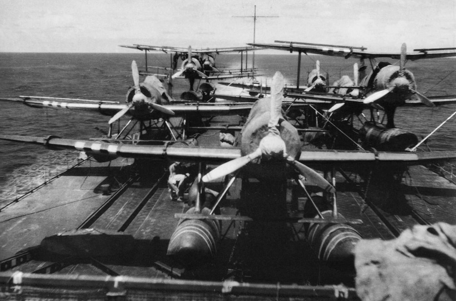 The aircraft deck of the Mogami after conversion as an aircraft cruiser, august 1943.